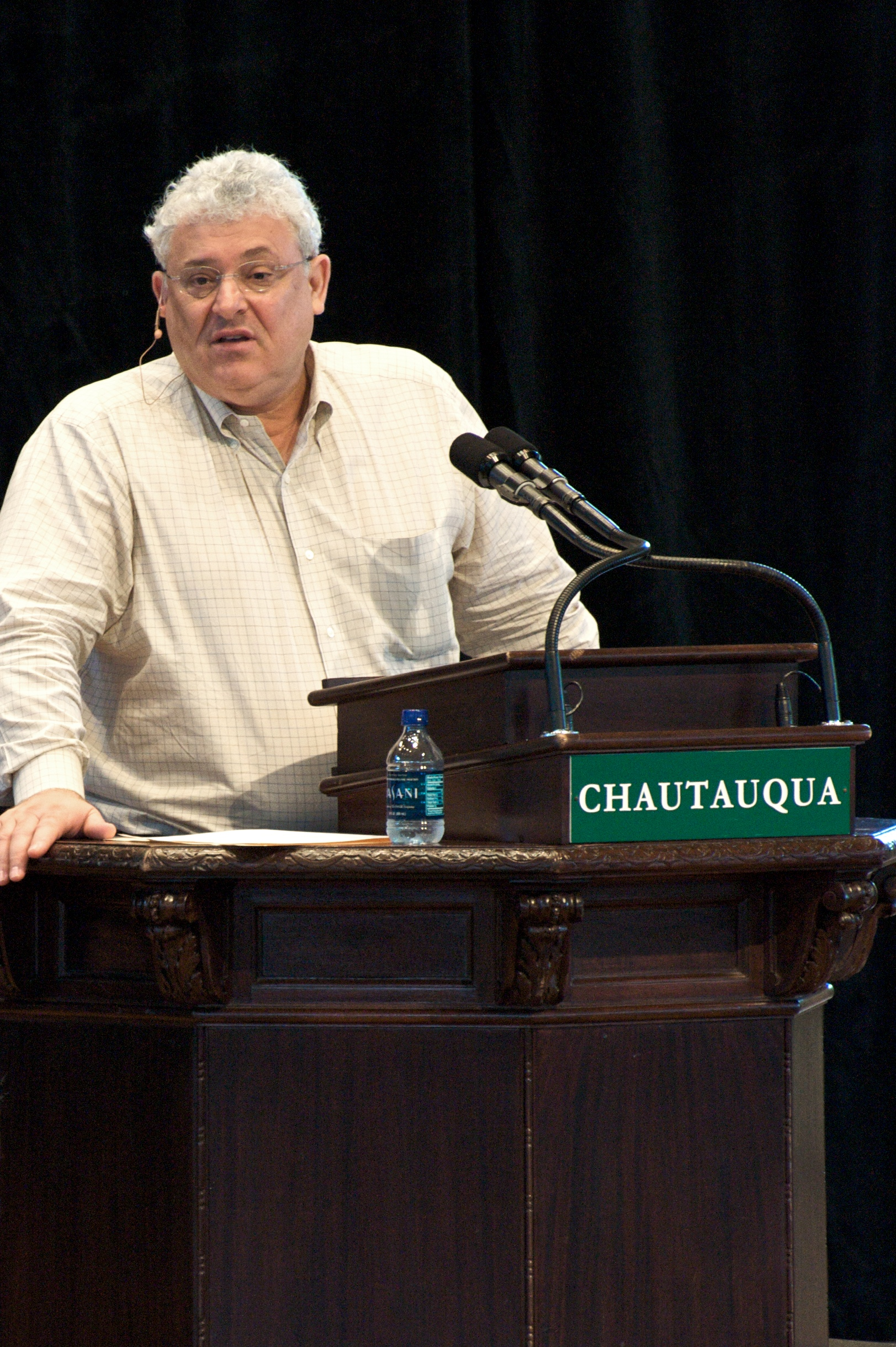 Director of the center for bioethics at Penn on stage at Chautauqua.